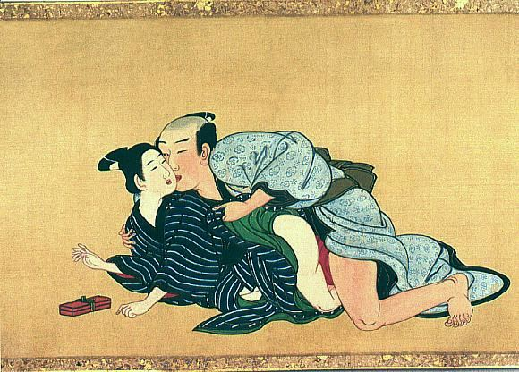 Spring PastimesNanshoku-type tryst between a samurai and a boyfriend. Young kabuki actors who played female roles were known as onnagata or kagema and doubled as sex workers. They were much sought after by the sophisticates of the day.Miyagawa Isshô, ca. 1750; Shunga hand scroll (kakemono-e); sumi, color and gofun on silk. Private collection.